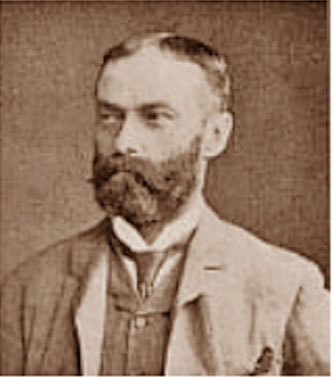 Hermanus Koekkoek de jongere